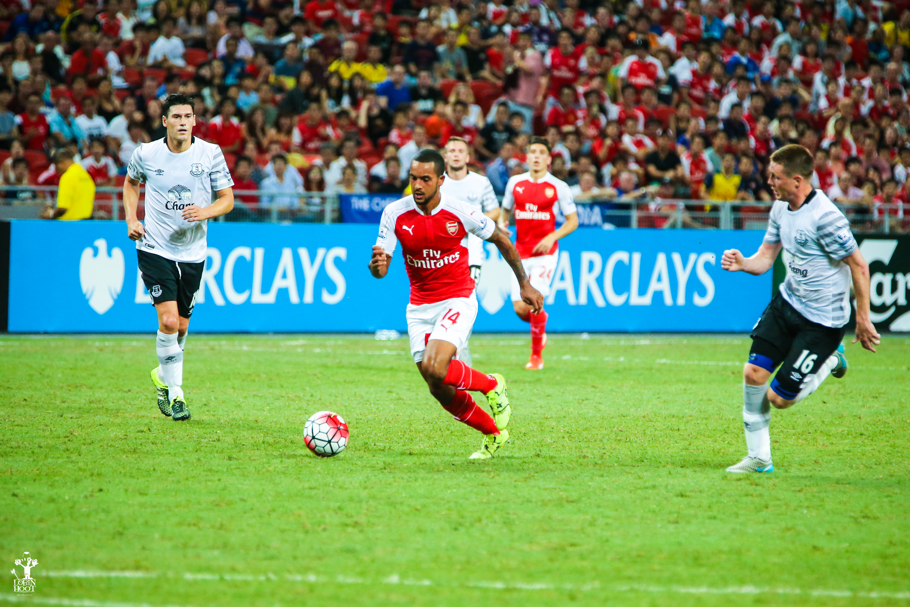 Barclays Asia Trophy 2015